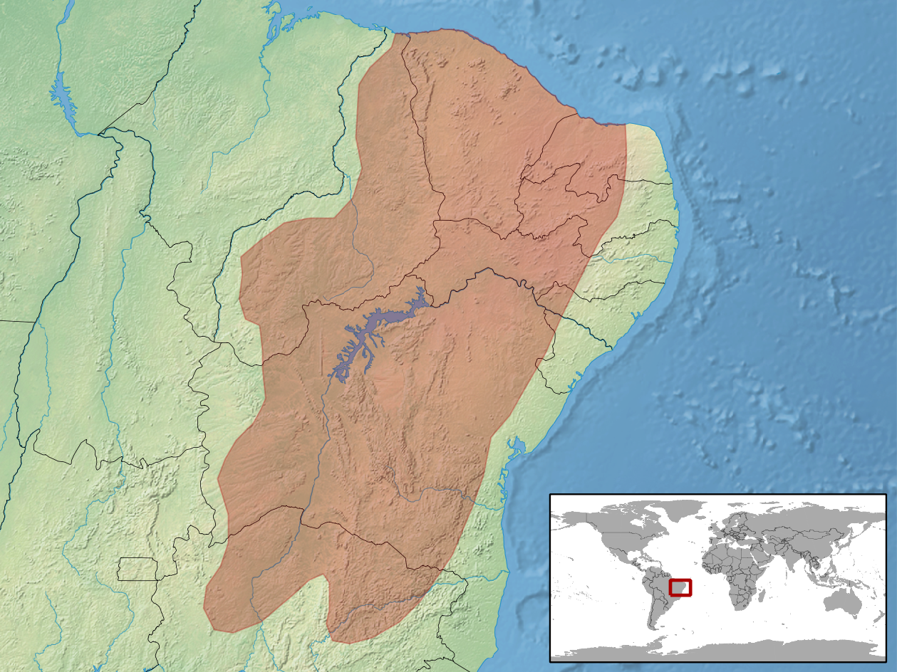 geographic distribution of Bothrops erythromelas (Native: Brazil (Alagoas, Bahia, Ceará, Maranhão, Minas Gerais, Paraíba, Pernambuco, Piauí, Rio Grande do Norte, Sergipe))